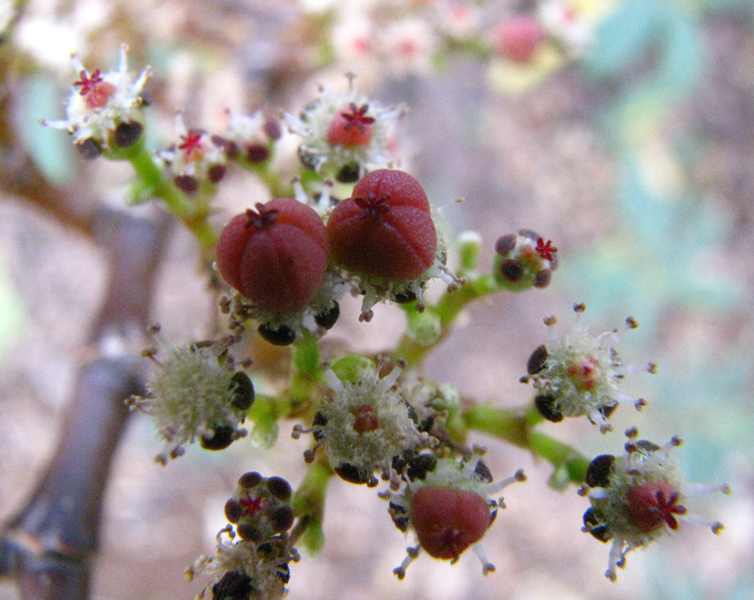 [syn., Chamaesyce celastroides var. kaenana] ʻAkoko, ʻekoko, koko, or kōkōmālei Euphorbaceae Endemic to the Hawaiian Islands Endangered Oʻahu (Cultivated)